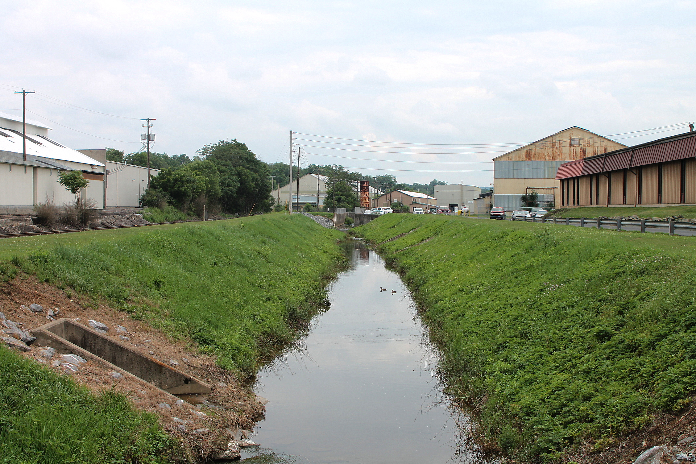 Sechler Run looking downstream